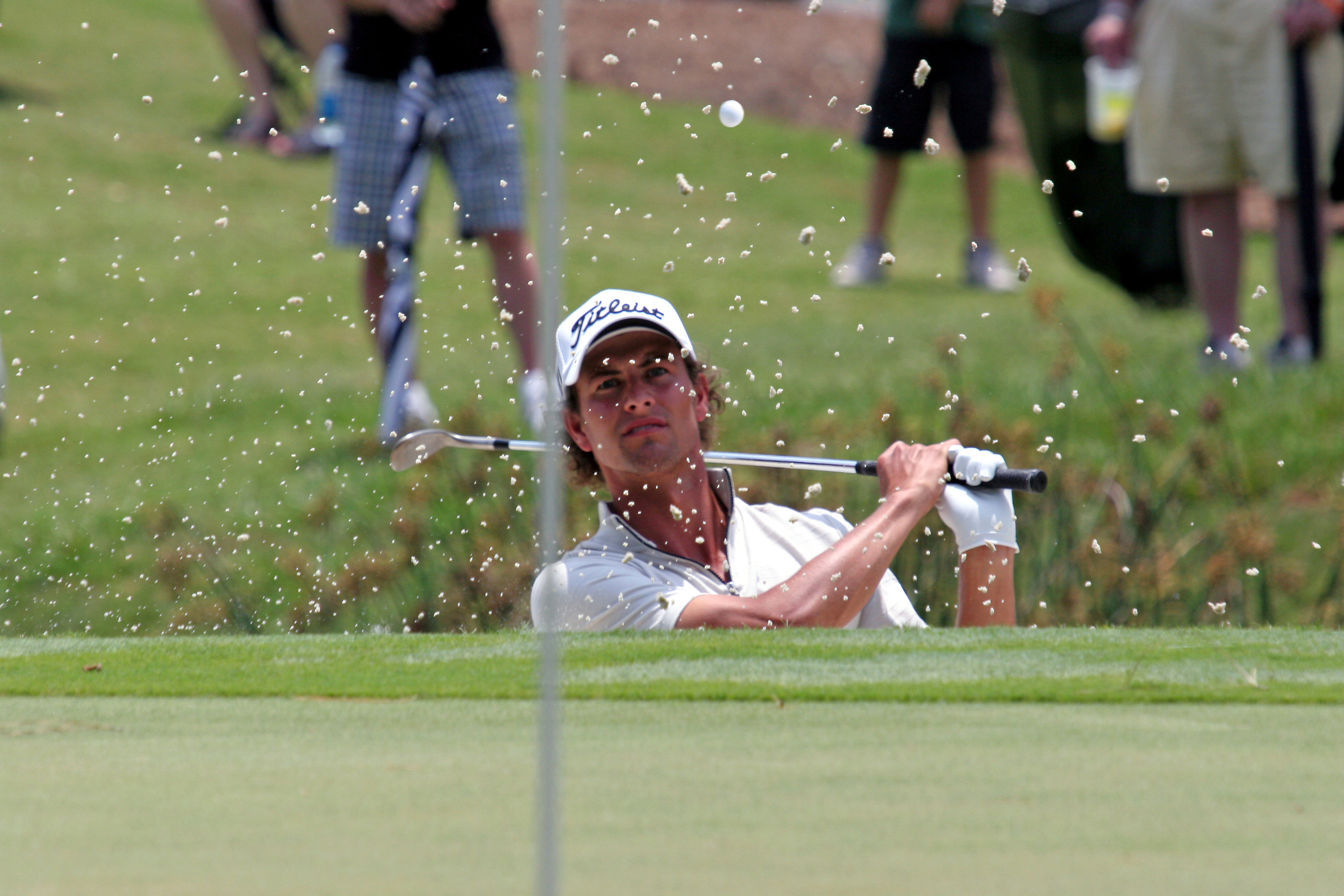 PGA golf professional Adam Scott chips out of the trap for par on #3 during the 2008 The Players Championship.